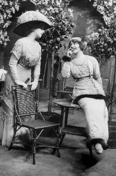 Amy Evans and Lily Elsie in A Waltz Dream, 1911